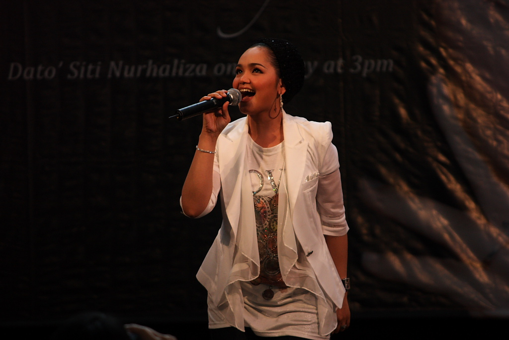 Siti Nurhaliza at the promotional tour for SimplySiti at The Spring, Kuching, Sarawak on June 6, 2010.